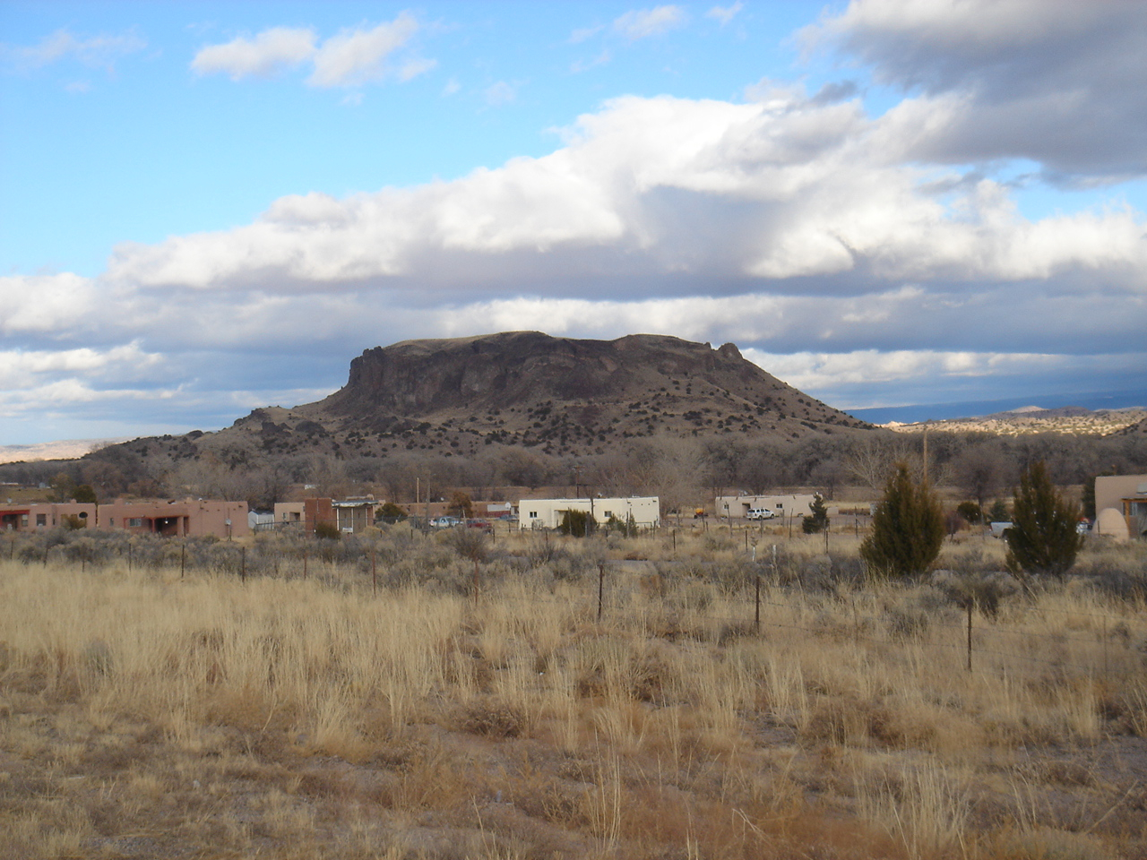 Black Mesa, outside of e San Ildefonso Pueblo, New Mexico.